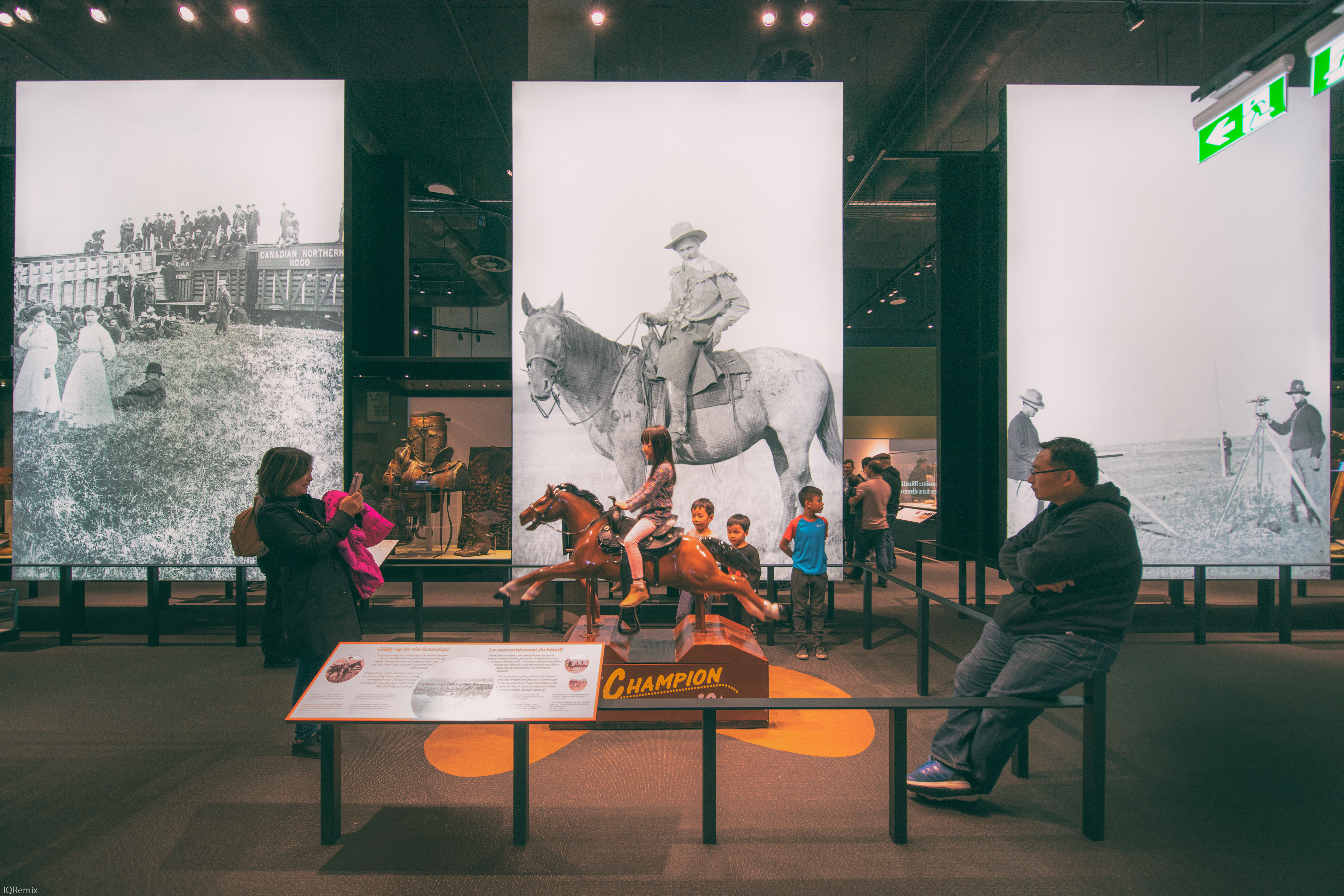 Interior gallery (Human History) at the Royal Alberta Museum